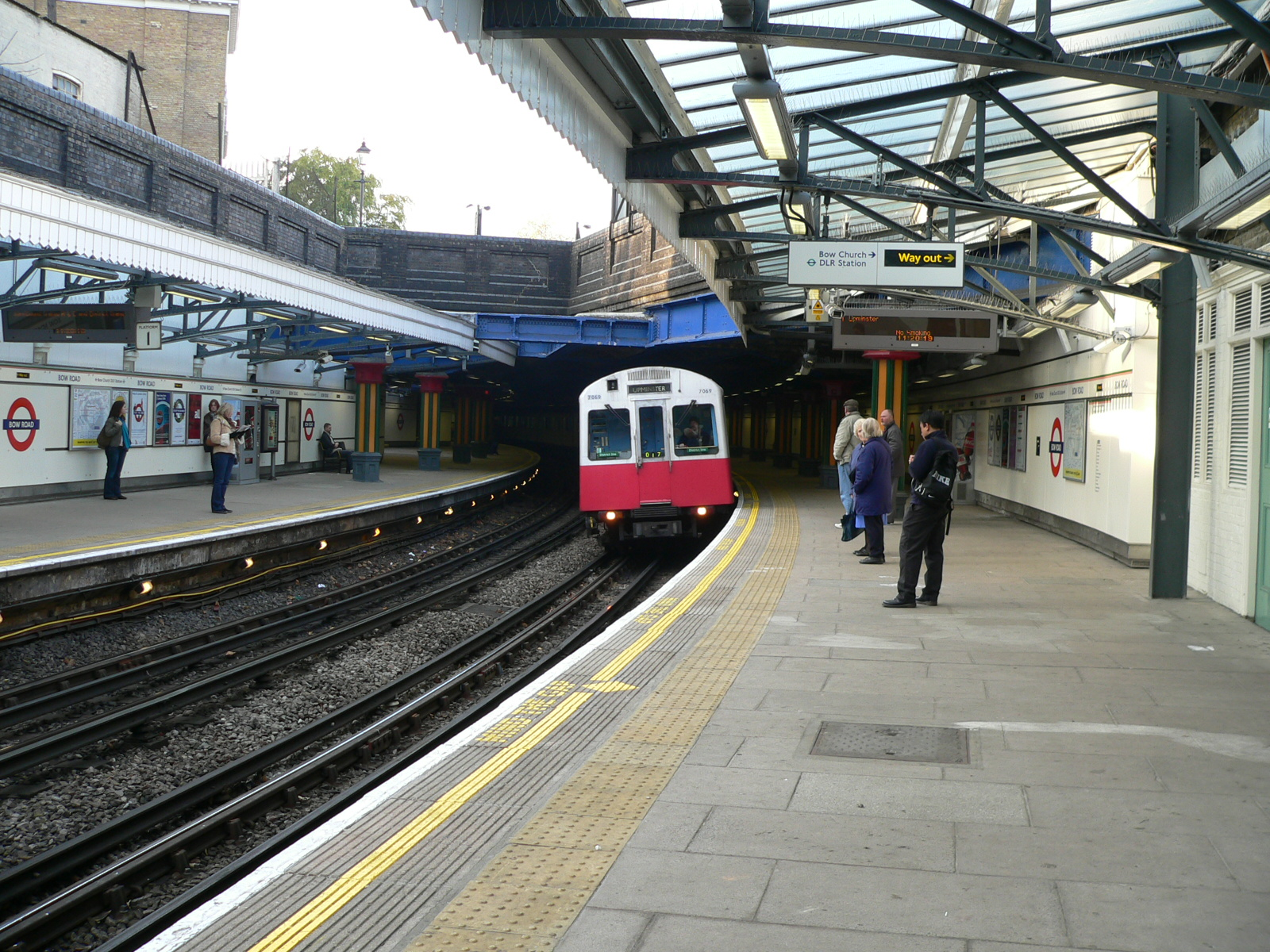 An eastbound District Line D stock train arrives into Bow Road tube station.